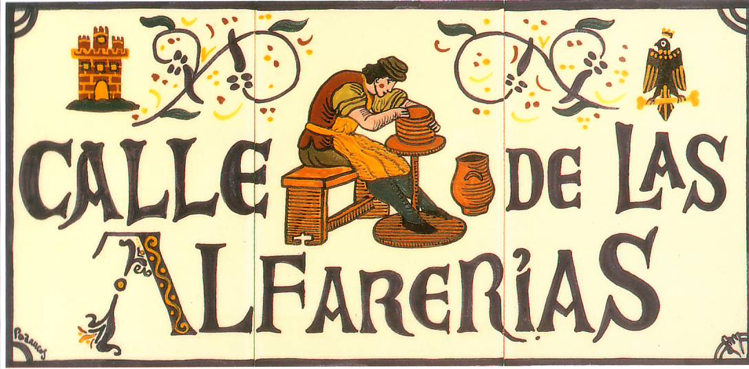 Artistic street signs in Sigüenza (Guadalajara Spain). The Alfar del Monte (Pozancos) ceramics.